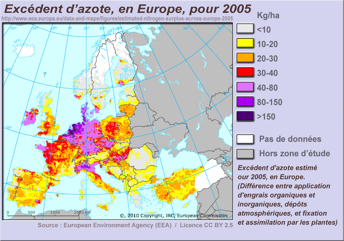 Estimated nitrogen surplus (the difference between inorganic and organic fertilizer application, atmospheric deposition, fixation and uptake by crops) for the year 2005 across Europe. (original : CC by 2.5)